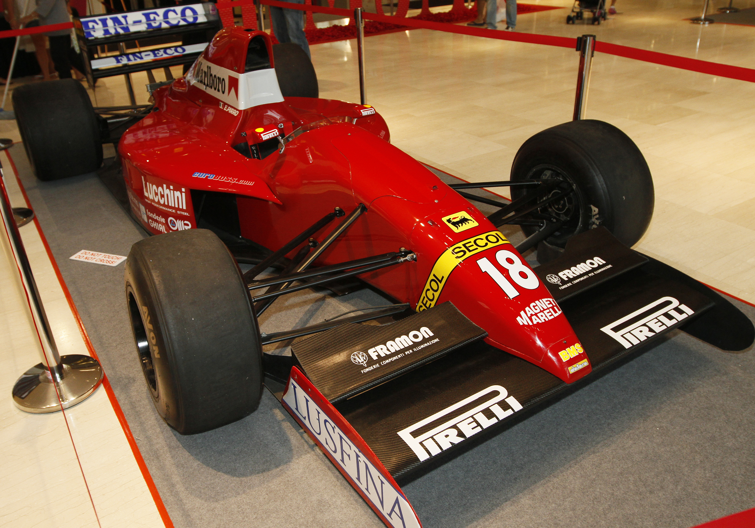 Pavilion Pit Stop 2010: Dallara 191 (Emanuele Pirro's car, but the car number is incorrect)